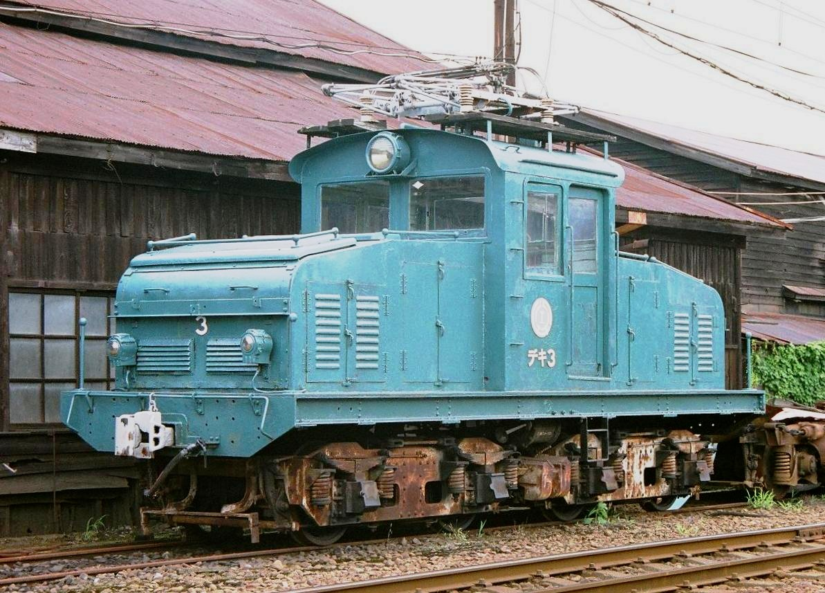 Fukui Railway Type deki3 Electric locomotive(Japan). It takes a picture from the home at FukubuLine NisiTakehu Station. 福井鉄道デキ3形電気機関車 福井鉄道福武線西武生駅にて 公道より撮影